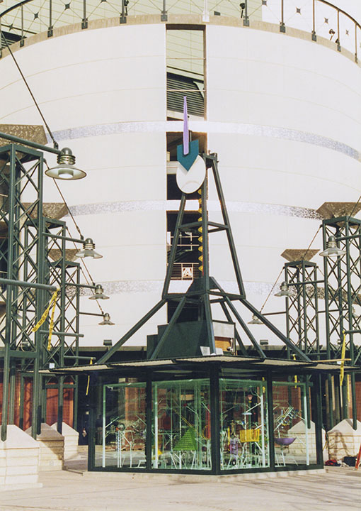 Based on Balls rolling ball sculpture located in Phoenix, AZ. Created by artist George Rhoads